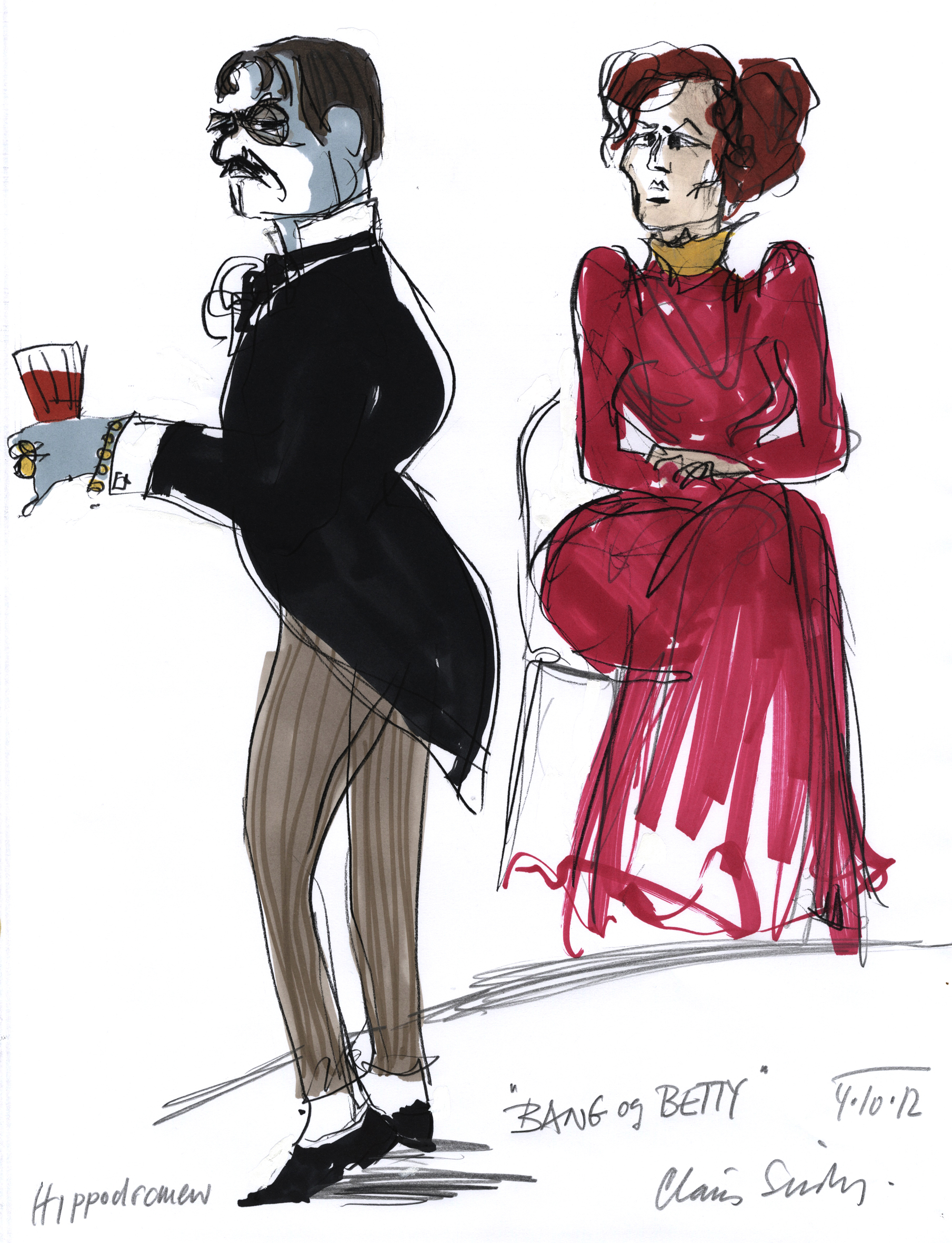 Ole Lemmeke as Herman Bang and Cecilie Stenspil as Betty Nansen. Fra Bang og Betty på Hippodromen, Folketeatret. 4. oktober 2012 From Bang and Betty at Hippodromen, Folketeatret. 4. October 2012 Drawing: Claus Seidel Department of Maps, Prints and Photographs, The Royal Library, Denmark.